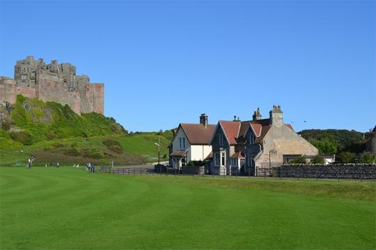 Rock Cottage, Bamburgh - long view of the house (built by Henry Pitt), where the Pitt family lived, with bamburgh Castle behind